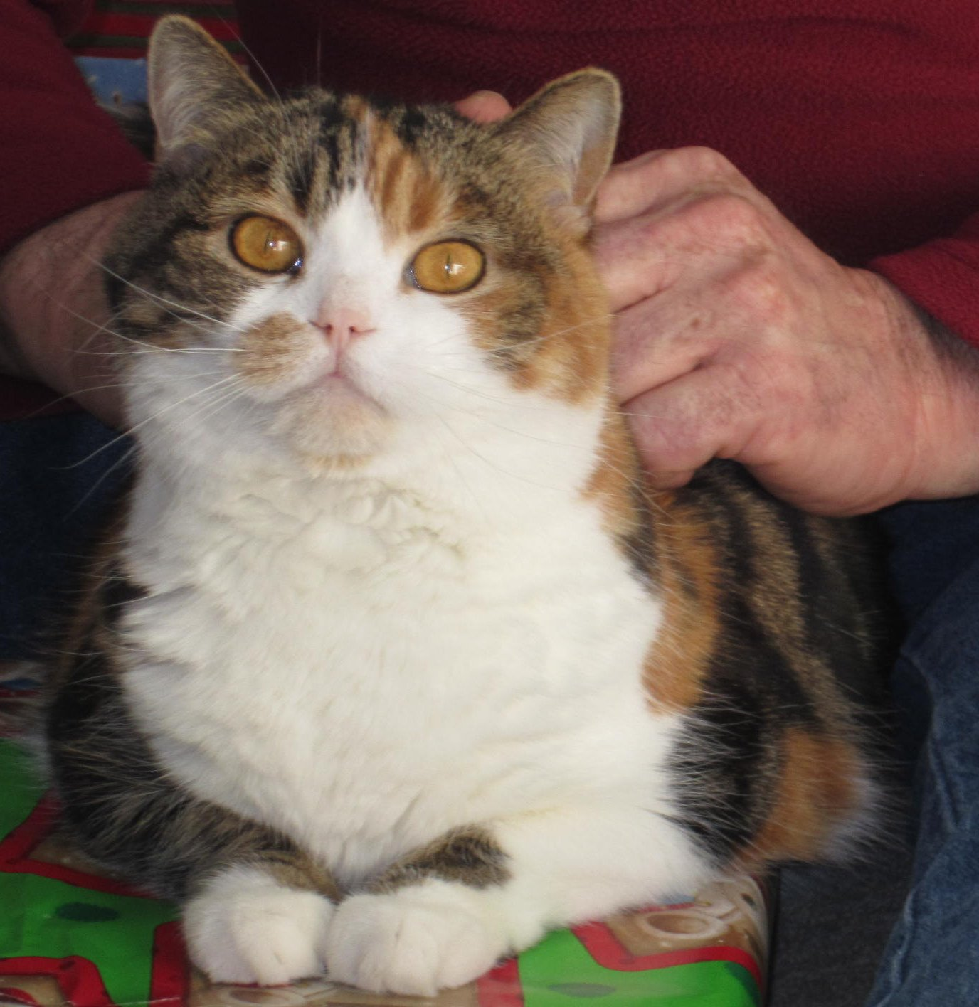 Hebrides Queen of Scots Maiden of Linanci ('Maddie") is a typical breed example of a Scottish Shorthair.